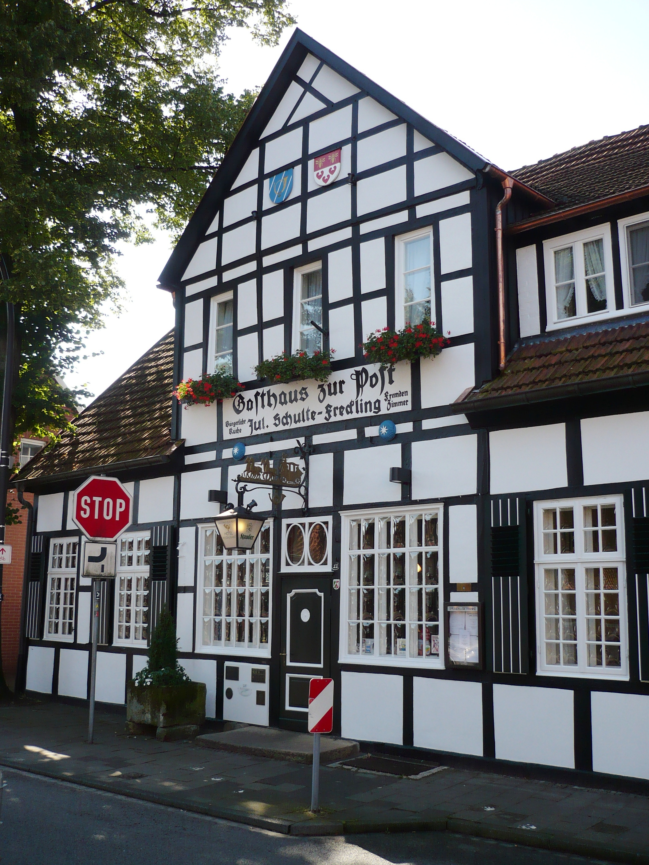 Ladbergen Dorfstraße. Gasthaus zur Post.